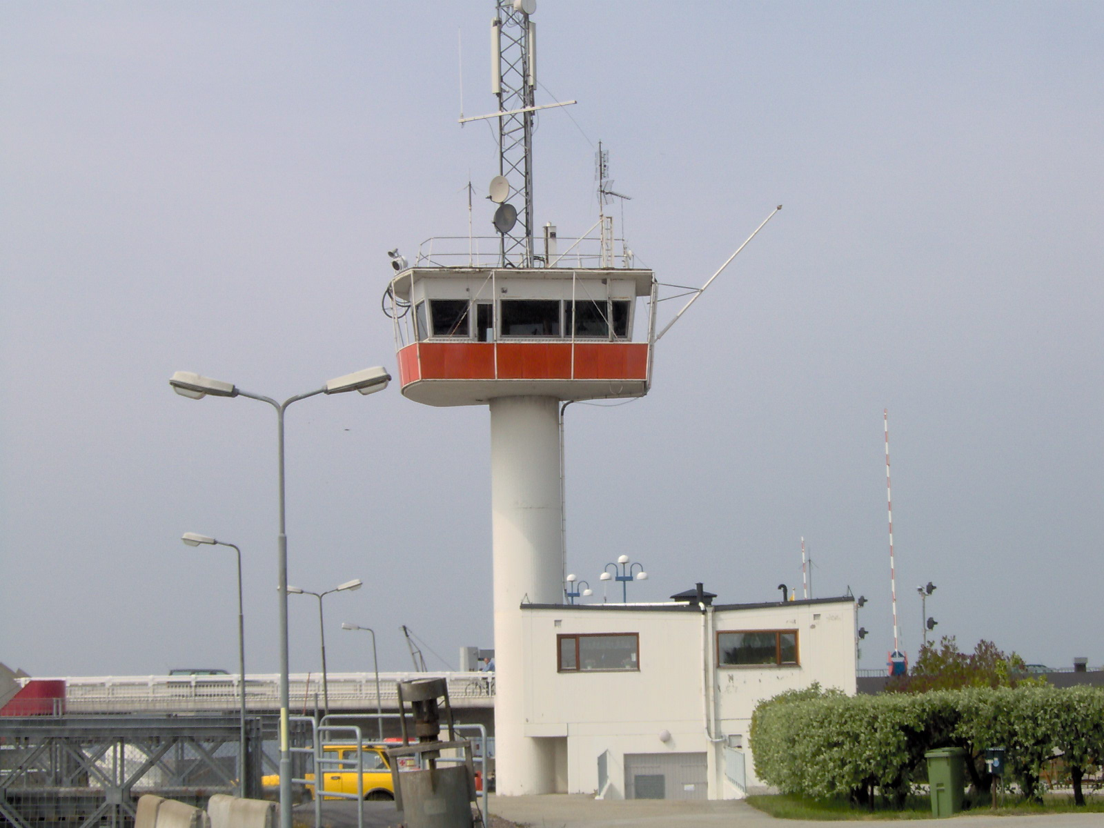 Control tower at Falsterbo canal. Source: taken by user may 22nd 2005